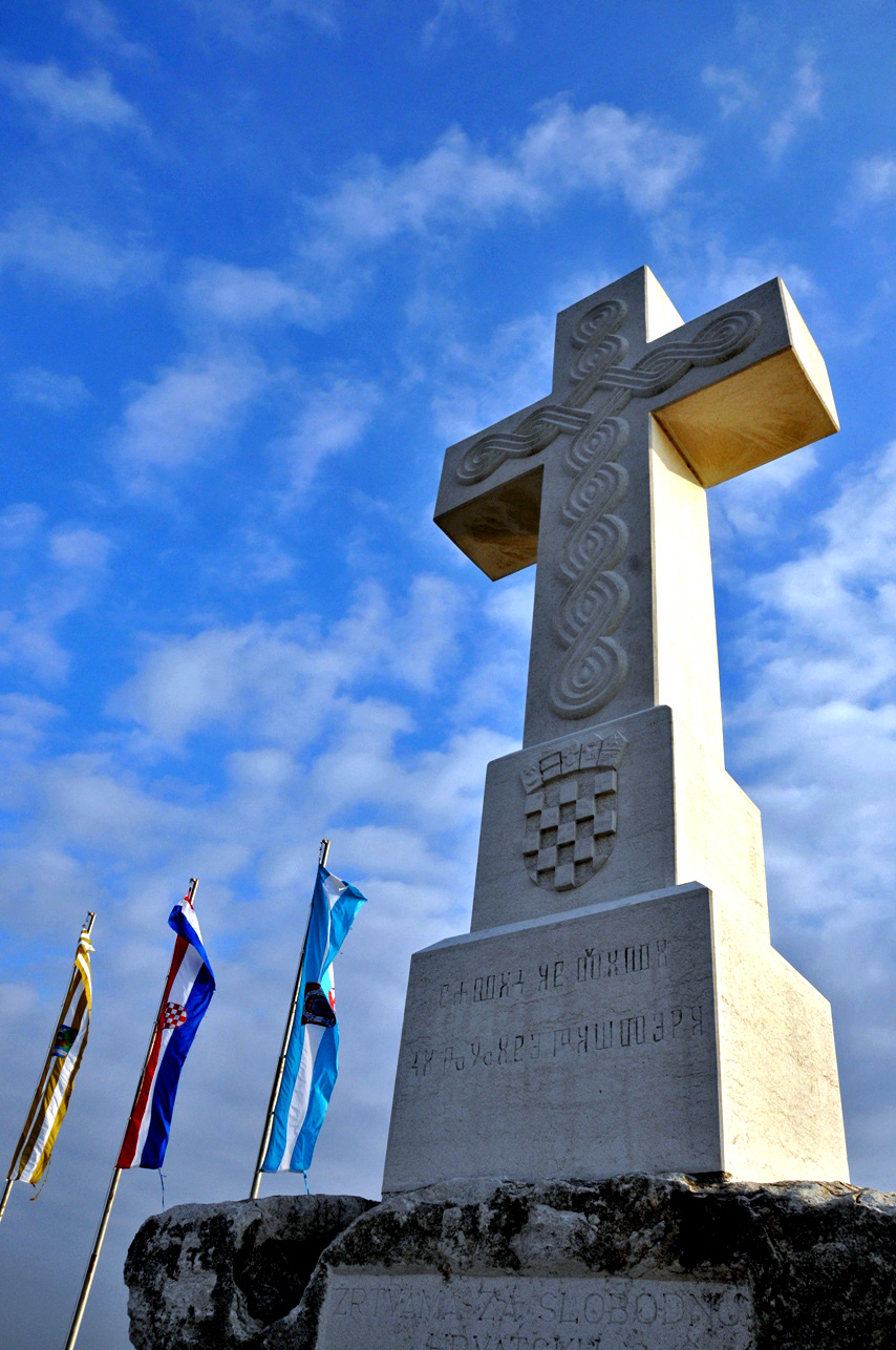 The White Cross, Vukovar (Croatia): Memorial to the defenders of Vukovar at the confluence of the Danube and Vuka rivers.